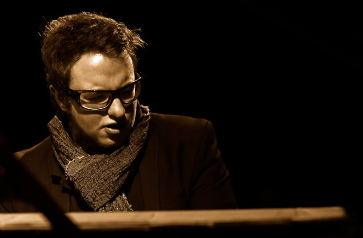 Live concert